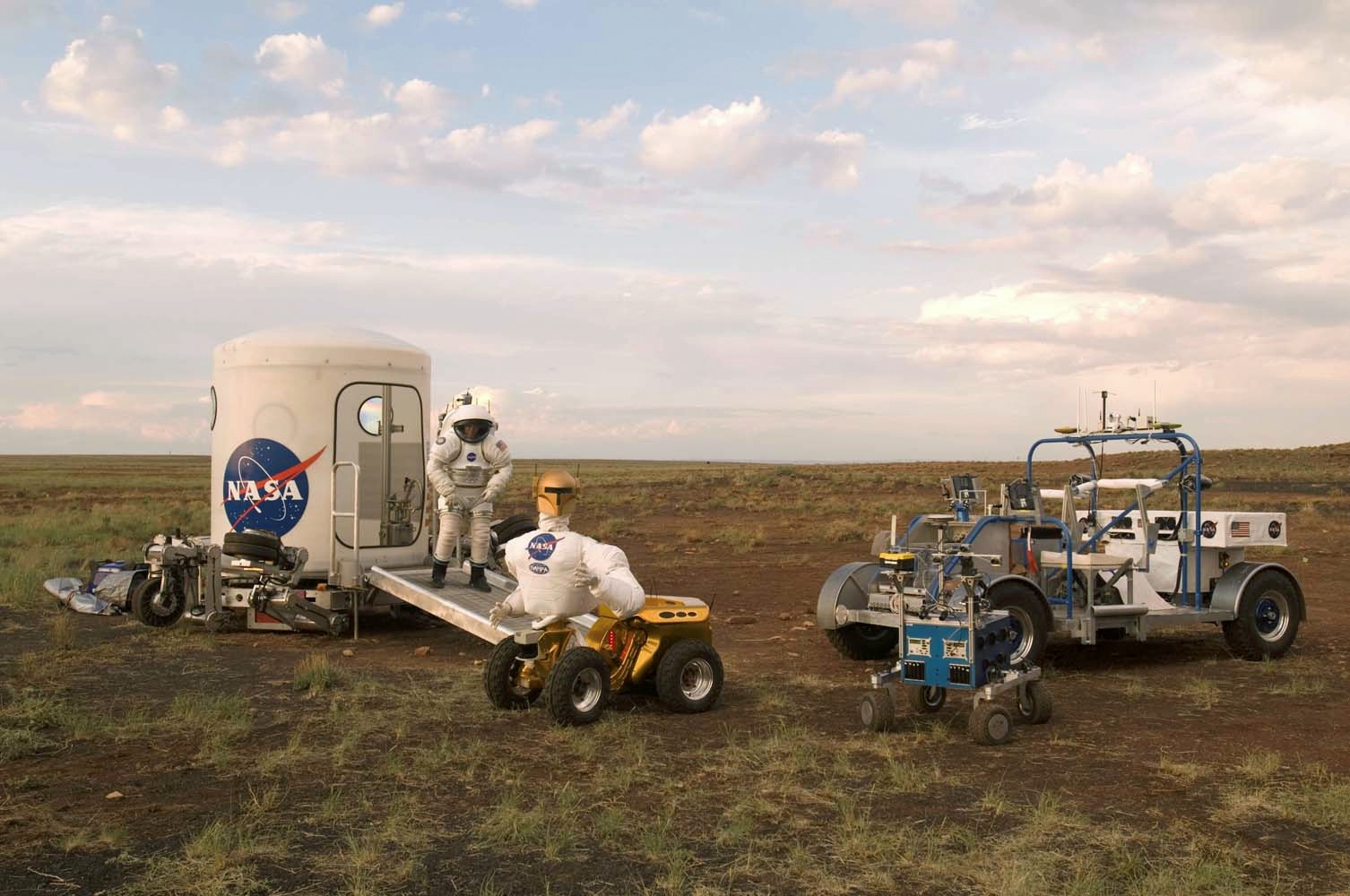 JSC2006-E-39969 - NASA's Desert Research and Technology Studies (RATS), a team of scientists and engineers who test futuristic equipment that may one day be used for explorations of the moon and Mars, is in the Arizona desert. In one scenario, the crew (see test subject on platform) will return to a mock way station, called a Pressurized Rover Compartment (PRC), which has been delivered to the site by Athlete, an All-Terrain Hex-Legged Extra-Terrestrial Explorer vehicle capable of "walking" over extremely rough or steep terrain. Once the crew dismounts the rover and enters the way station, a half humanoid, half vehicle robot known as Centaur will unload the day's sample collection and equipment. Another robot (K-10) will then "visually" inspect the rover. The robotic maneuvers will be controlled through a satellite link to NASA's Exploration Planning and Operations Center at JSC.